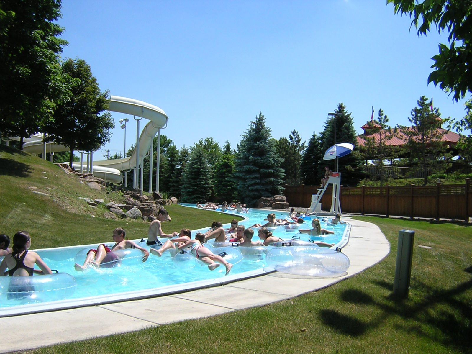 Waterpark lazy river section at Cedar Fair's Valleyfair! amusement park in Shakopee, Minnesota, USA